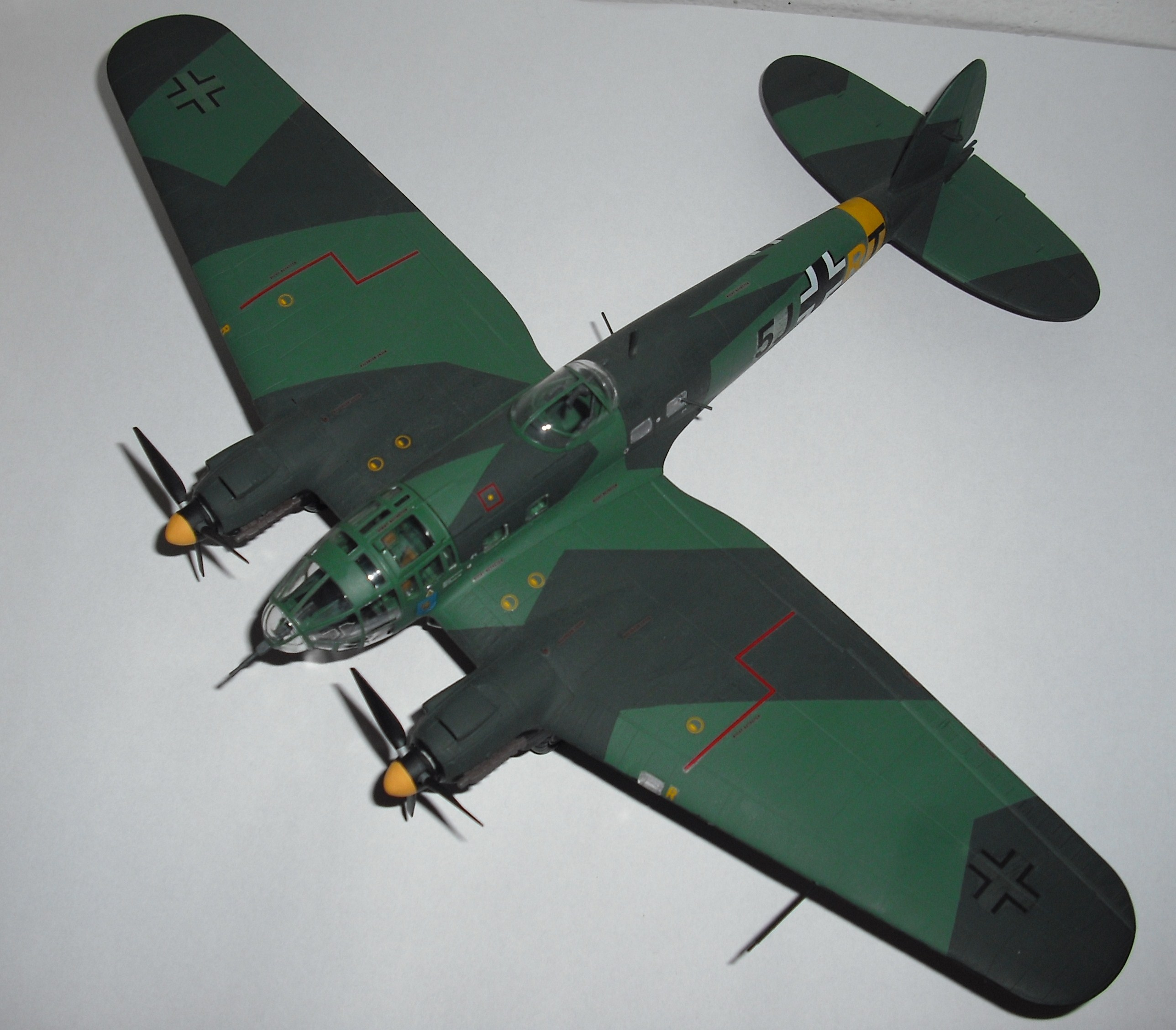 Revell 1/72 scale model of a Heinkel He 111 H-6 medium bomber. The aircraft is a H-6 of 9./KG 4 „General Wever“, employed on Pathfinder and Marker Missions for IV. Fliegerkorps, Hungaria, Summer 1944.